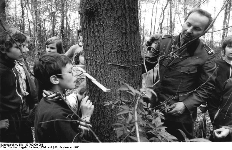 A bitterlich stick as half thigh caliper.